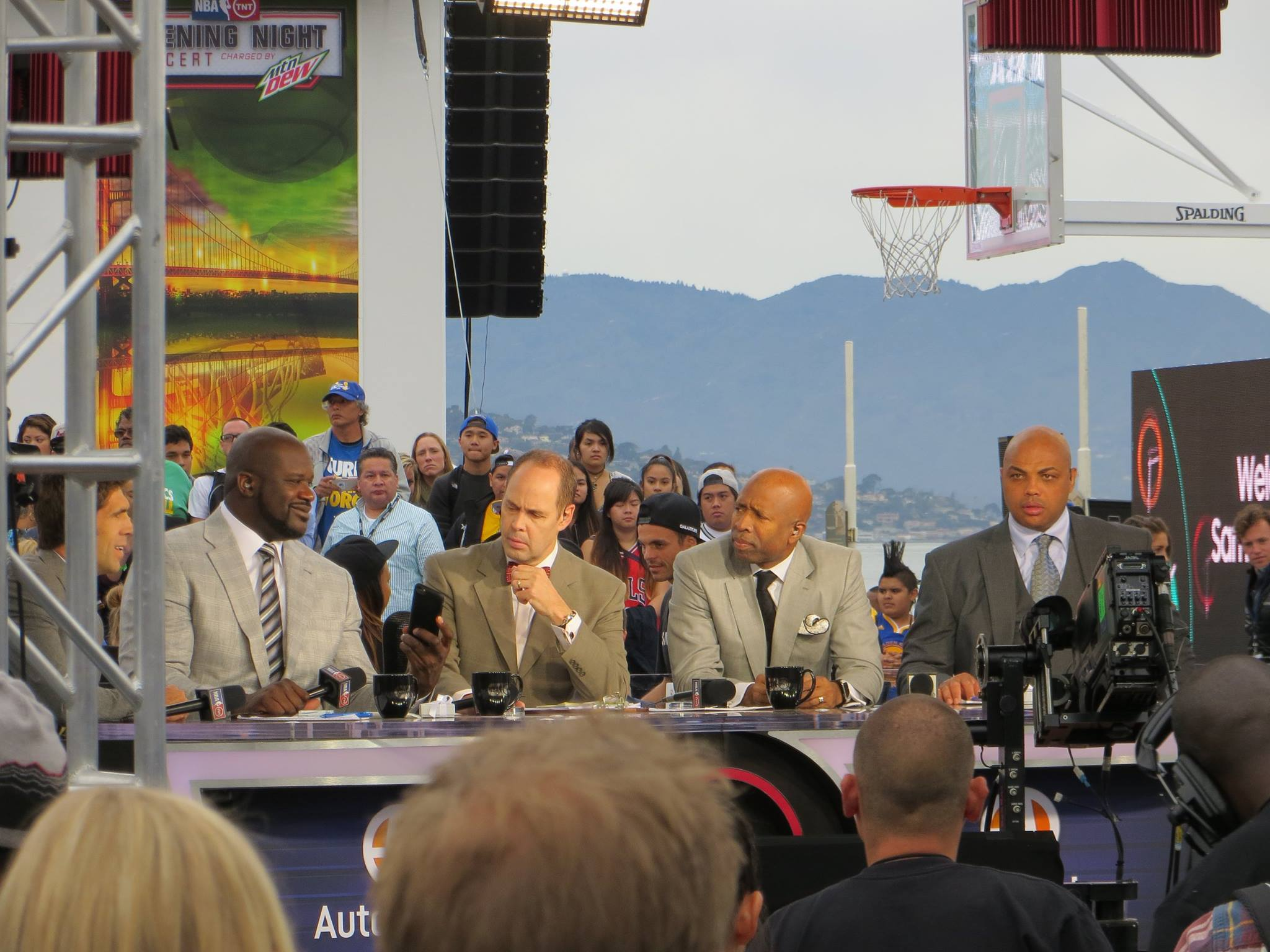 TNT's "Inside the NBA" crew on Pier 43 on Opening Night 2015. (L to R) Shaq, Ernie, Kenny & Chuck